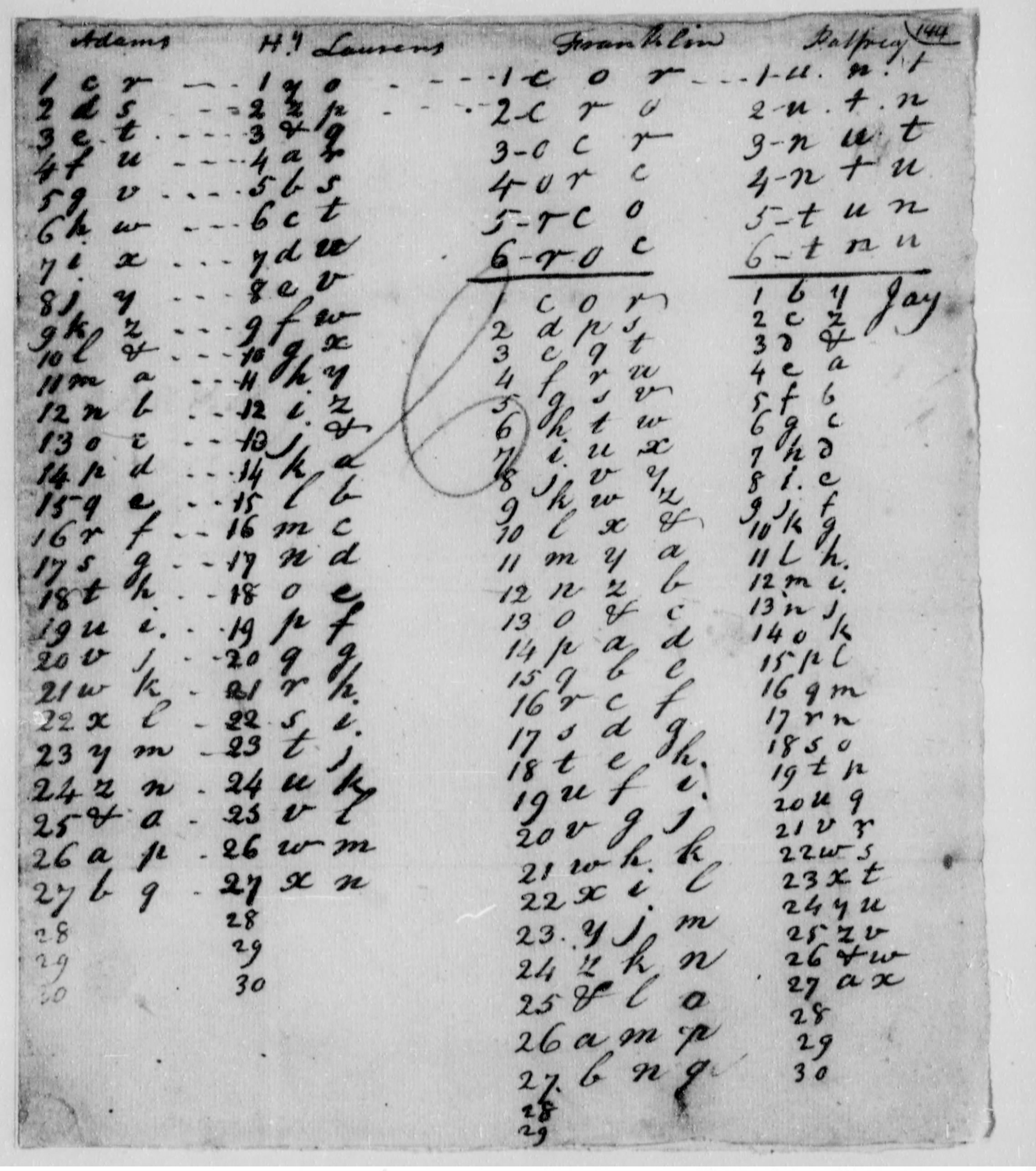 Papers of the Continental Congress. Roll 72, page 144. Substitution tables for James Lovell's polyalphabetic cipher system. John Adams was assigned keyword CR. Henry Laurens got YO. Benjamin Franklin got COR. William Palfrey gotUNT. John Jay got BY. Lovell contemplated permutation of keyword letters.